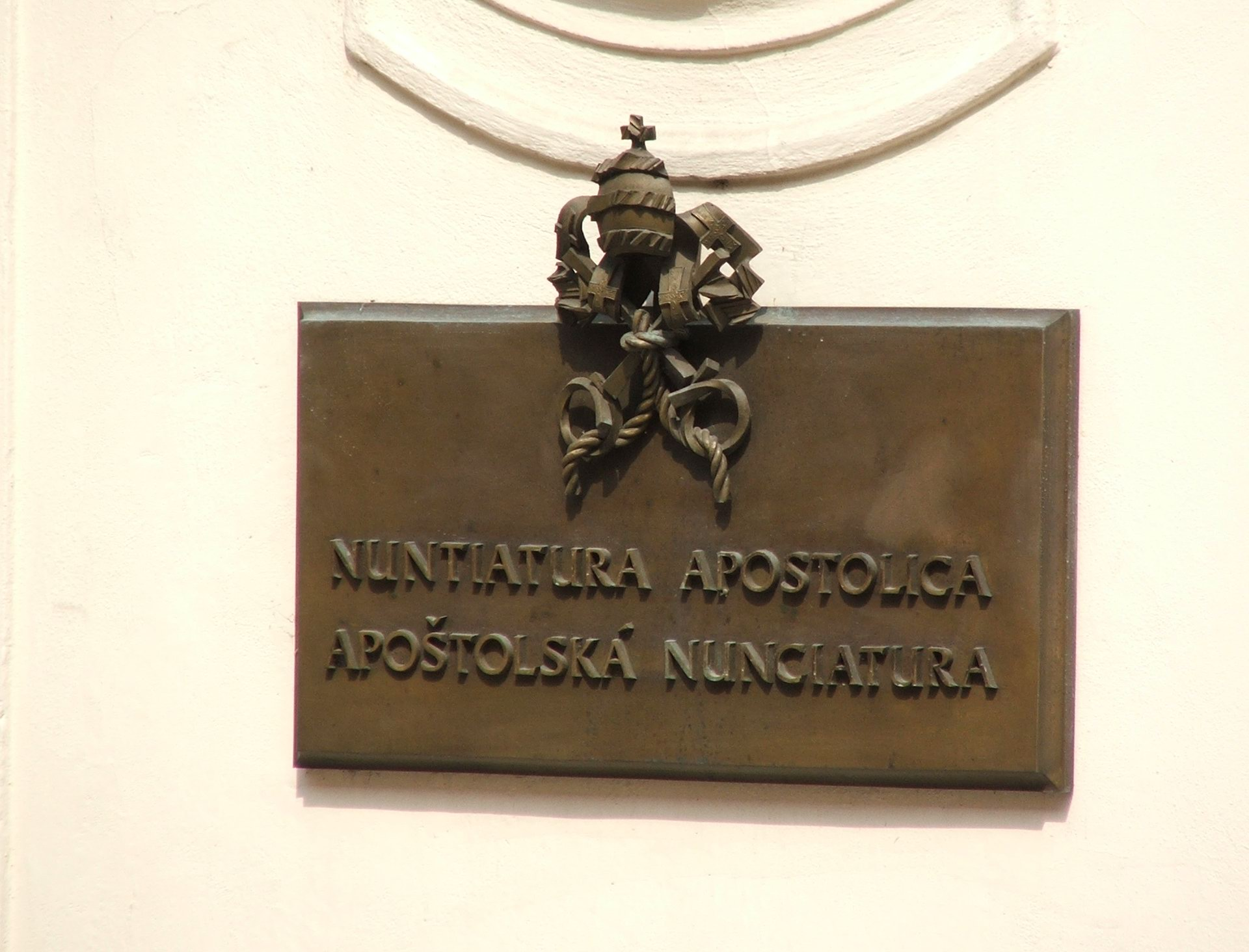 Coat of arms at Nunciature in Prague